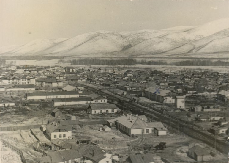 Aerial view of Ust-Omchug, Russia, in 1958